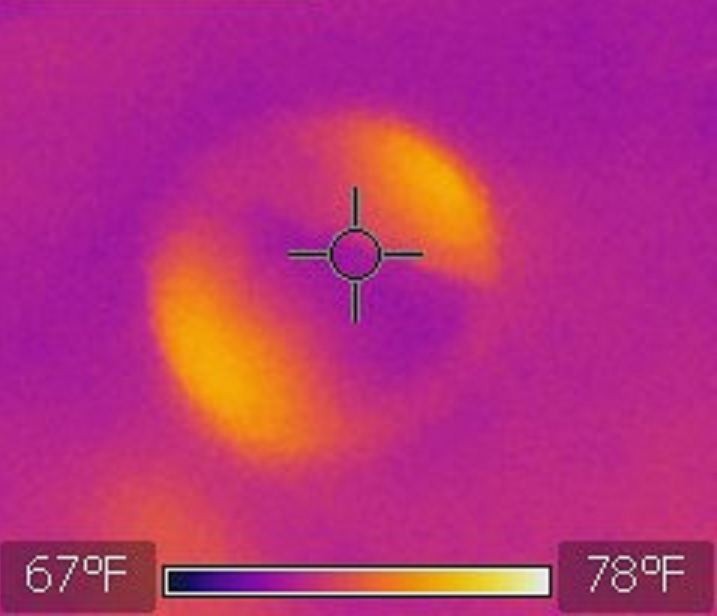 Thermal image of an optical flat, taken immediately after picking up and then setting it right back down. The thermal gradient is enough to distort the surface, affecting the readings.